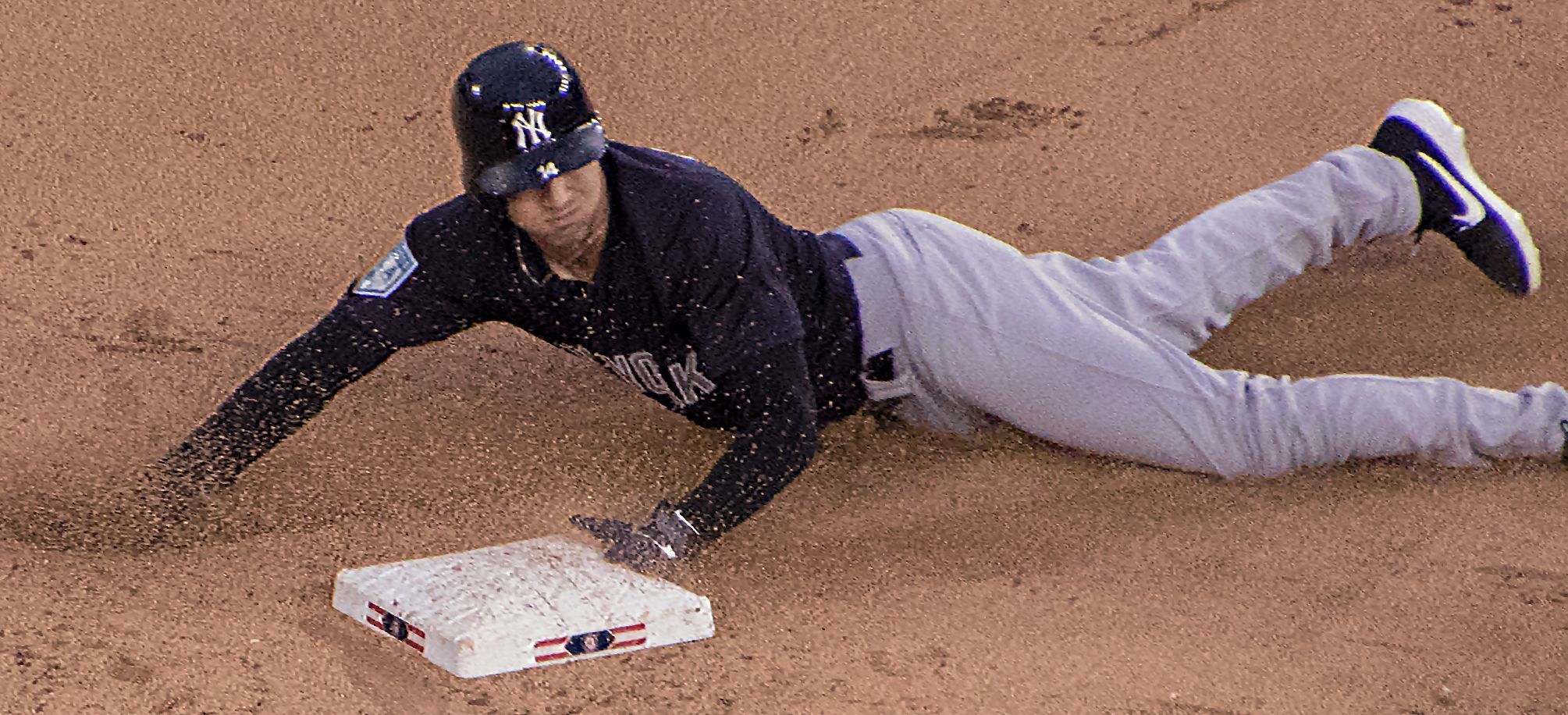 Tyler Wade of the New York Yankees slides into second base, defended by Trea Turner of the Washington Nationals, during a 2019 exhibition game at Nationals Park in Washington, D.C.